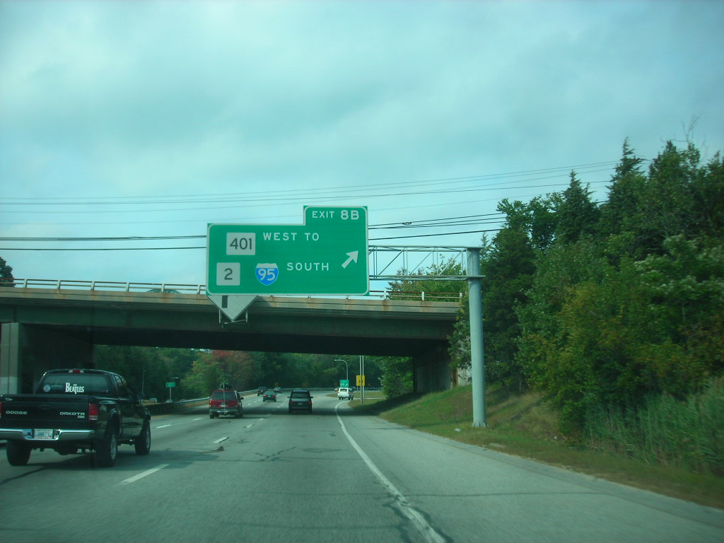 Rhode Island Route 4 (the Colonel Rodman Highway) heading towards the interchange with Rhode Island Route 401 in Warwick, Rhode Island.